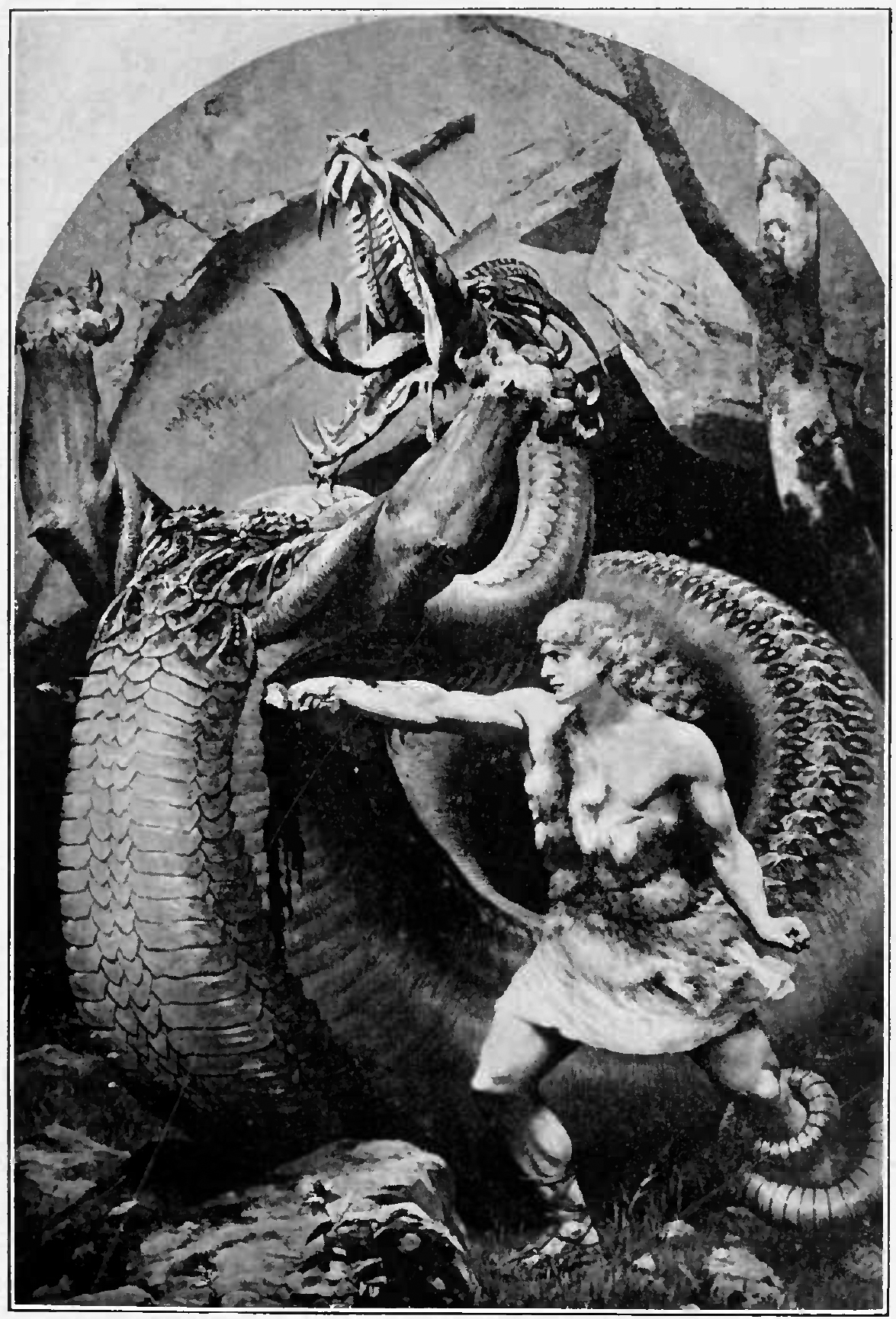 Captioned as "Siegfried fighting the Dragon".